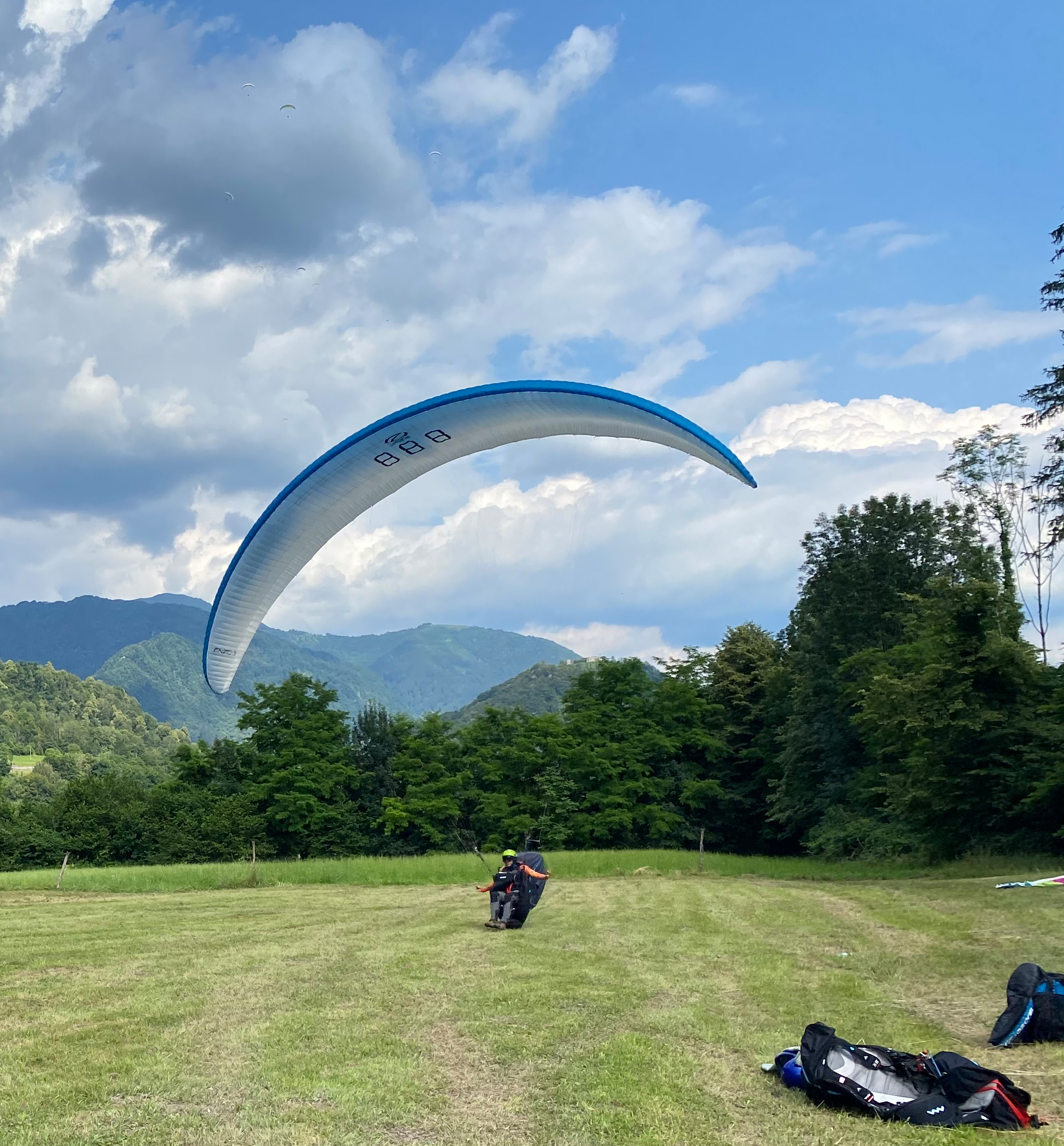 An Ozone Enzo 3 paraglider landing after a task in the 2020 "Freedom Open" competition near Tolmin, Slowenia